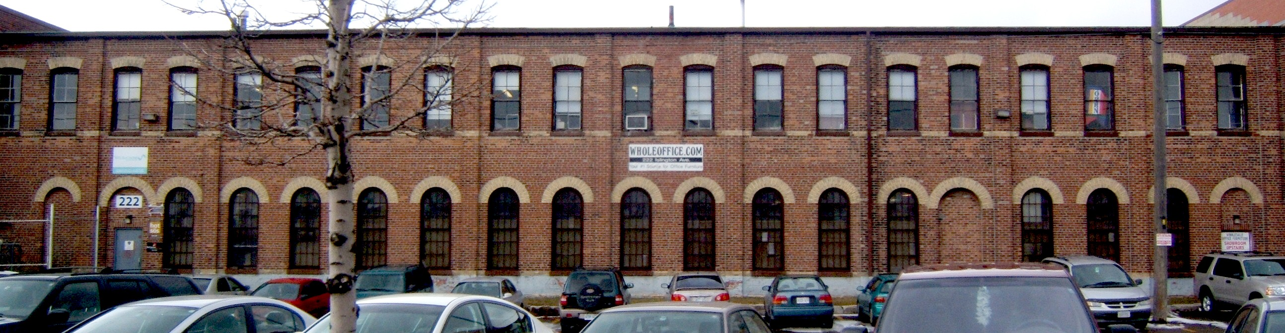 Victorian Industrial Building on Islington Ave, New Toronto